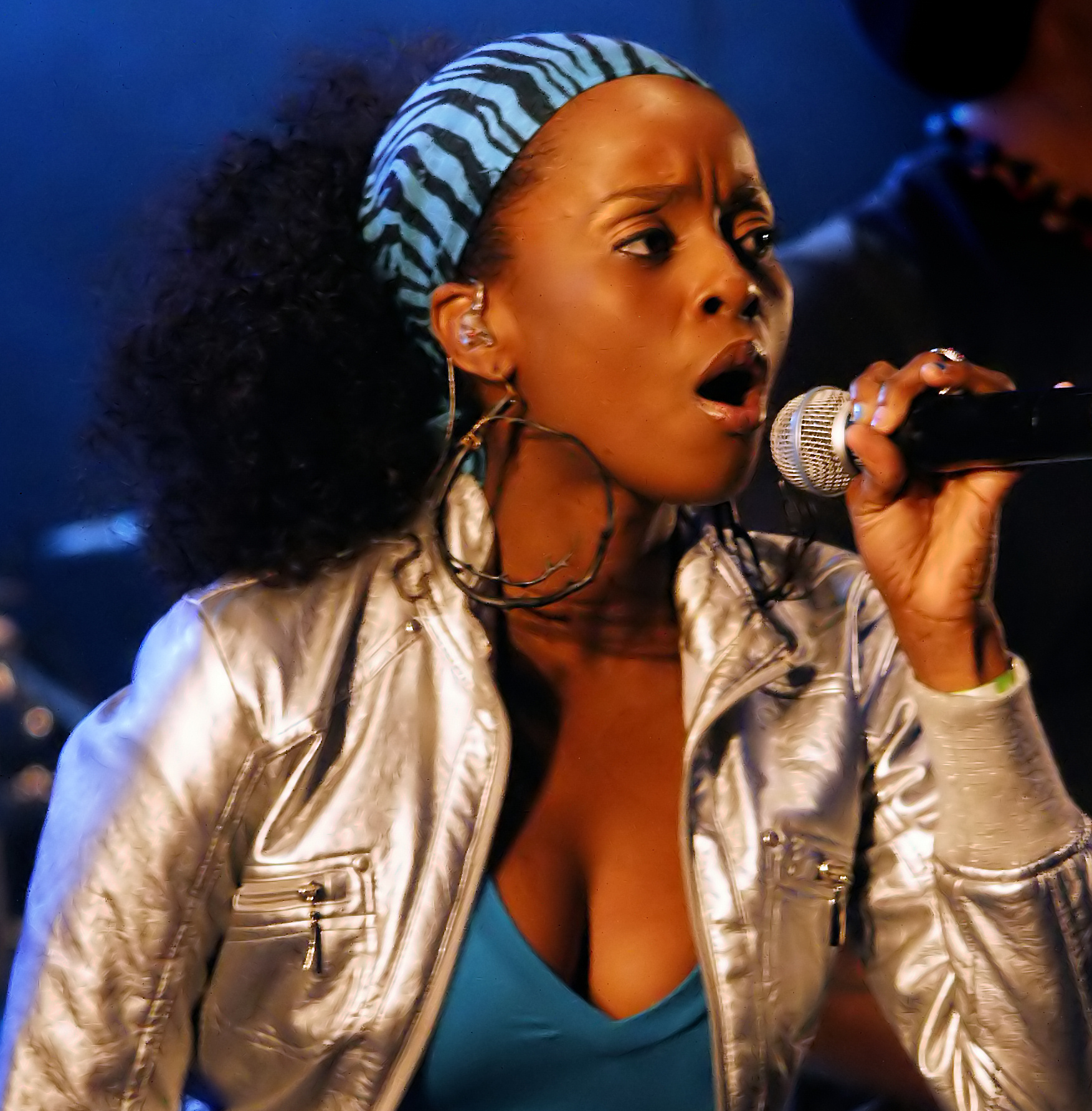 Cherine Anderson portrait at the 2009 Cactus Festival in Bruges, Belgium.